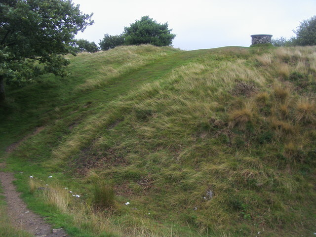 Blackdown Rings Compass plinth on Blackdown Rings